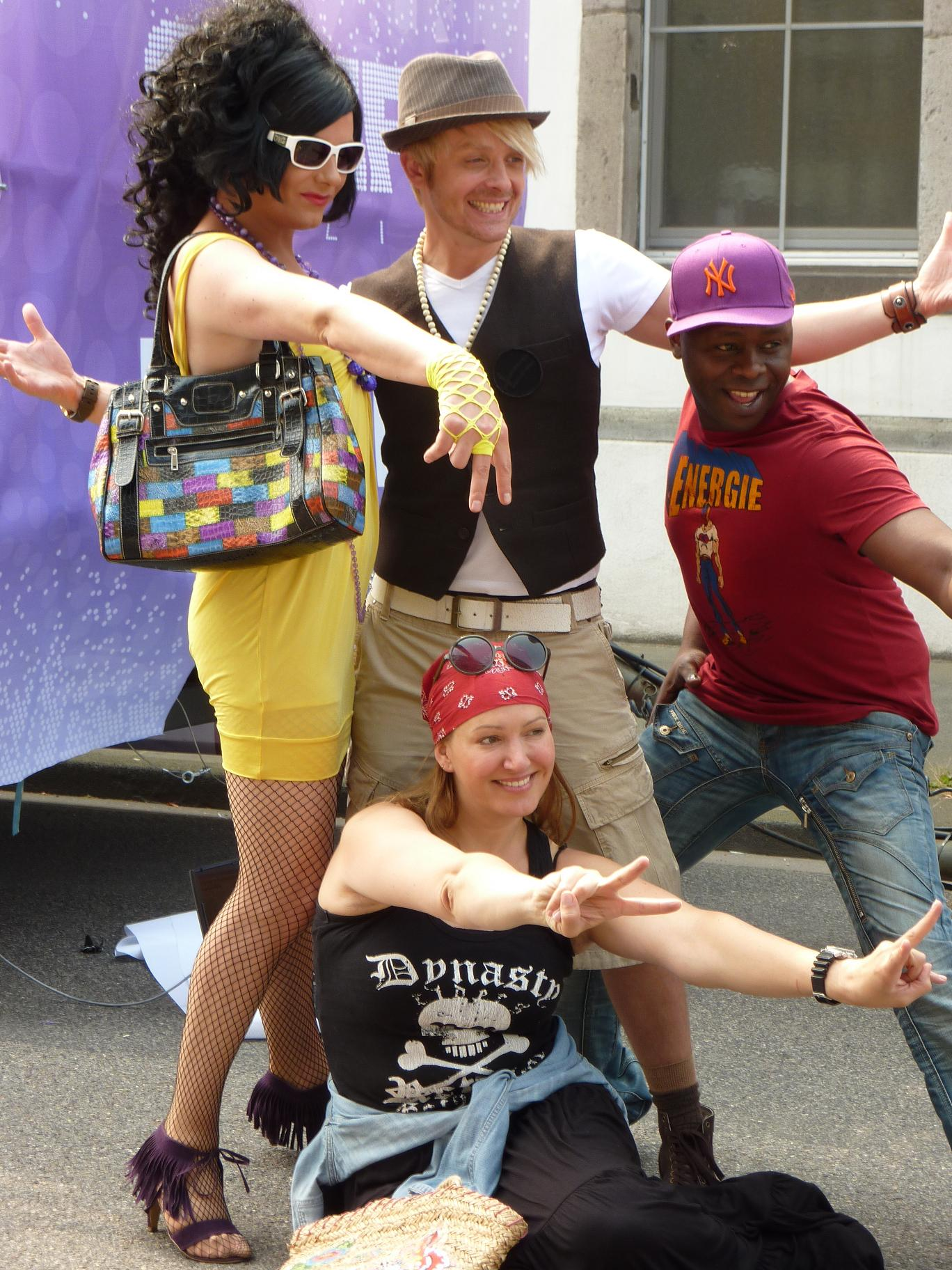 The jury of the casting show "Village Boys": Nina Queer, Ross Antony, Jimmy Joe und Katja Mitchell